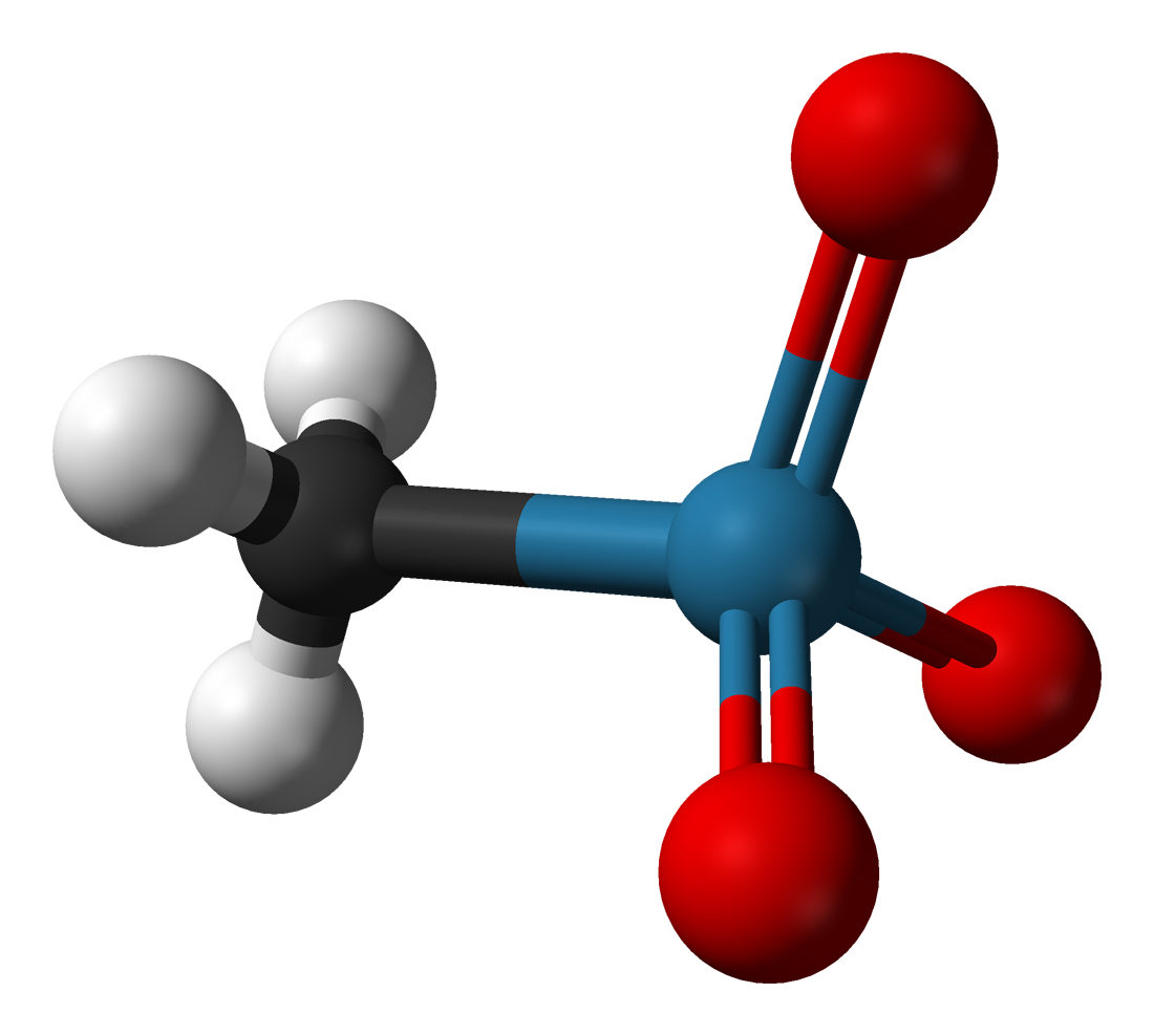 Ball-and-stick model of the methylrhenium trioxide molecule